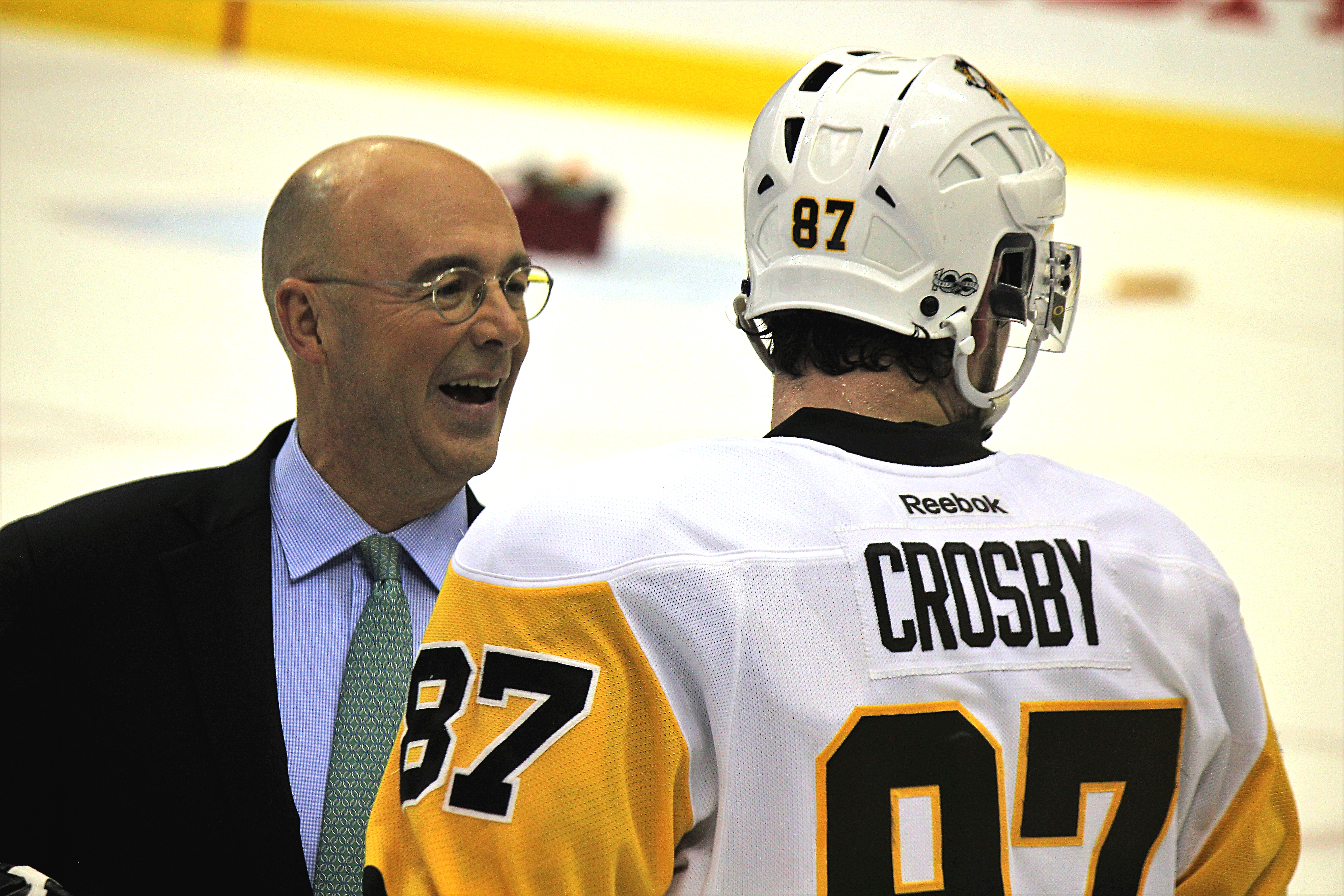 Pierre McGuire speaks to Sidney Crosby.